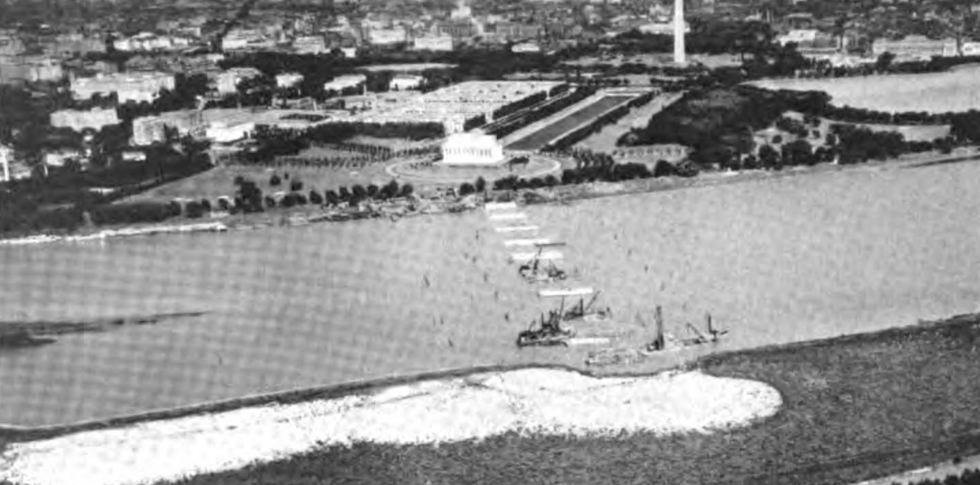 Construction of the Arlington Memorial Bridge across the Potomac River in Washington, D.C., in the United States in 1927. This image shows the dredging operations (center, bottom) that are reshaping Columnia Island by removing about 40 acres of the island's surface but also depositing material dredged from the river bottom onto the island to raise it to a height of about 26 feet above the mean water level. It also shows the construction of cofferdams, abutments and piers (center) which will form the bridge. Along the D.C. shorline (top, diagonally left to right), a seawall is being built and trees have been felled to make way for the "watergate steps" leading from the Lincoln Memorial to the water.